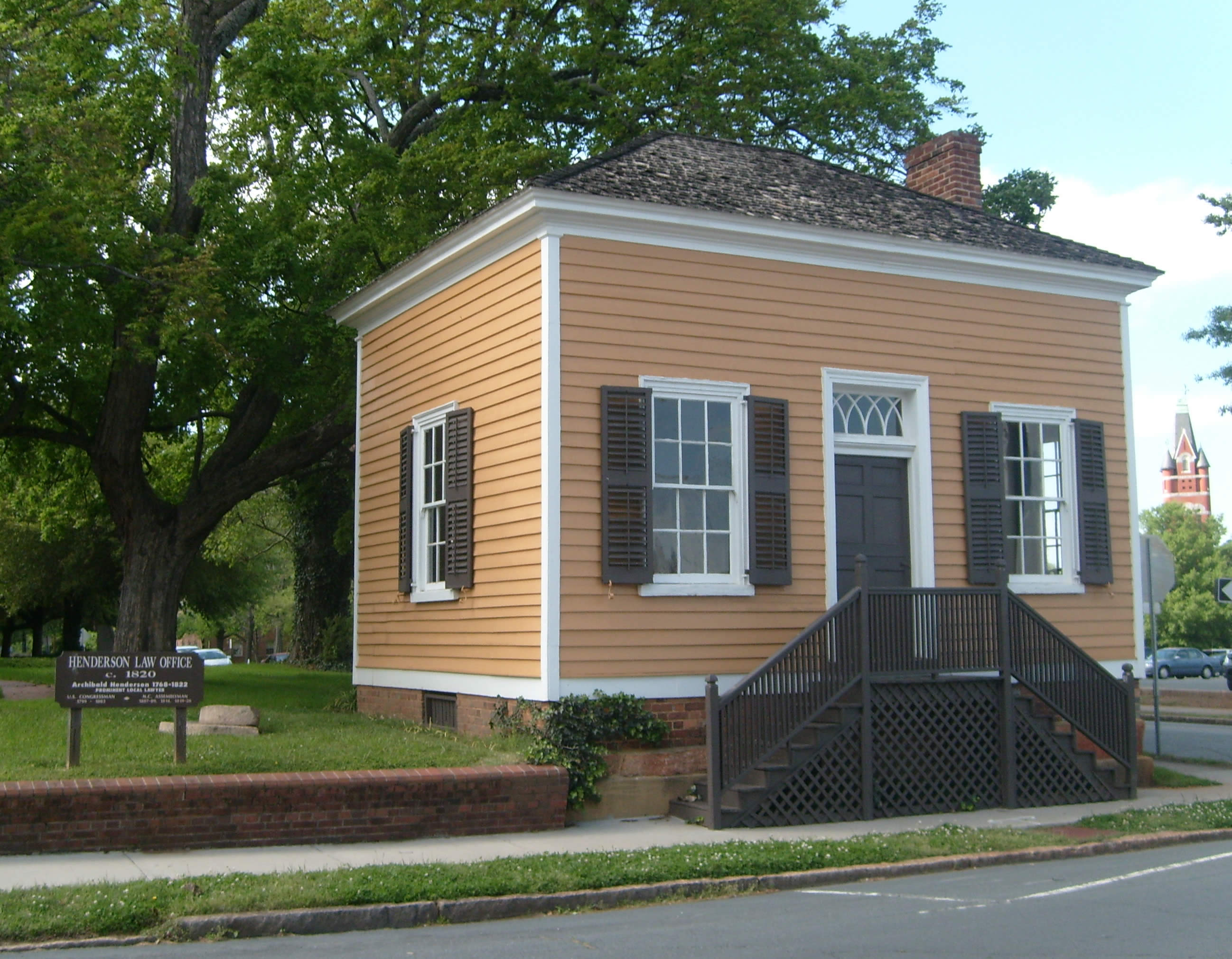 Photo of the Archibald Henderson Law Office on the property of Rowan Public Library in Salisbury, North Carolina, USA. On the National Register of Historic Places.